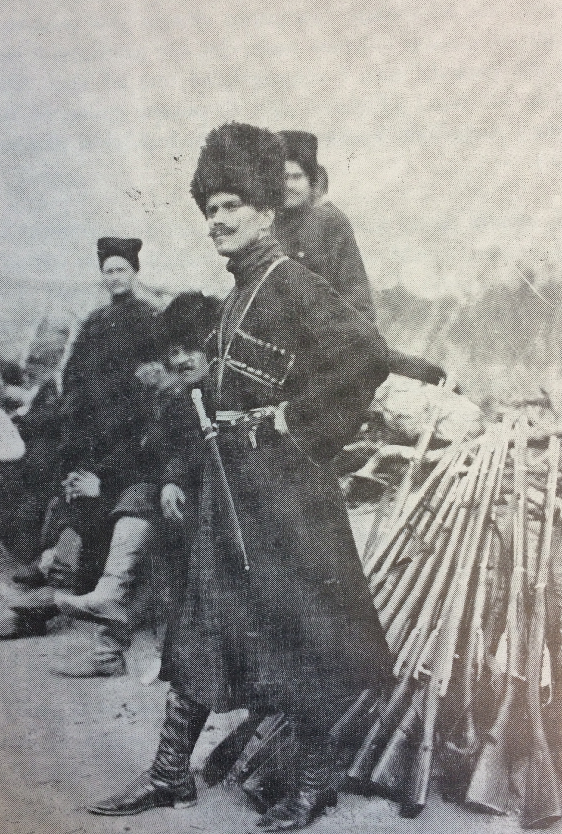 Giovanni Vitrotti in Caucasus chokha